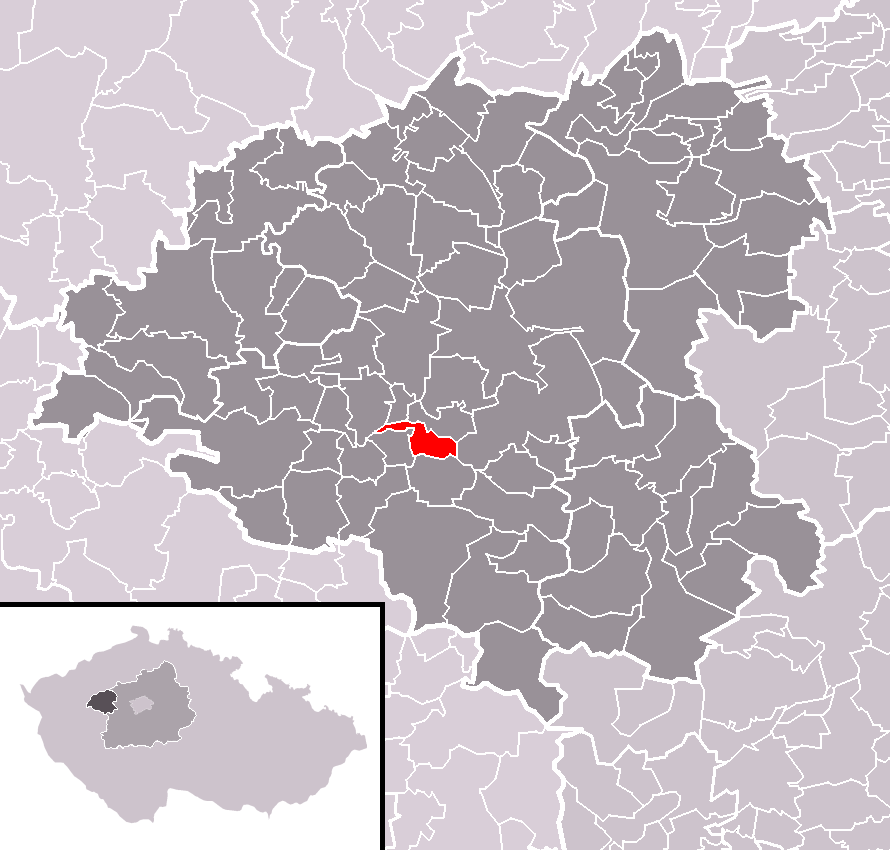 Location of Hvozd municipality within Rakovník District and (identical) administrative area of Rakovník as a Municipality with Extended Competence.